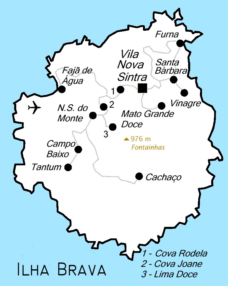 Map of the Brava Island in Cape Verde.